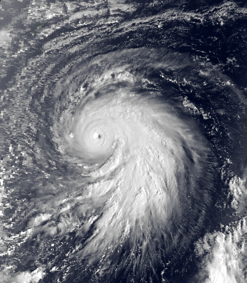 Typhoon Wynne on October 9, 1980